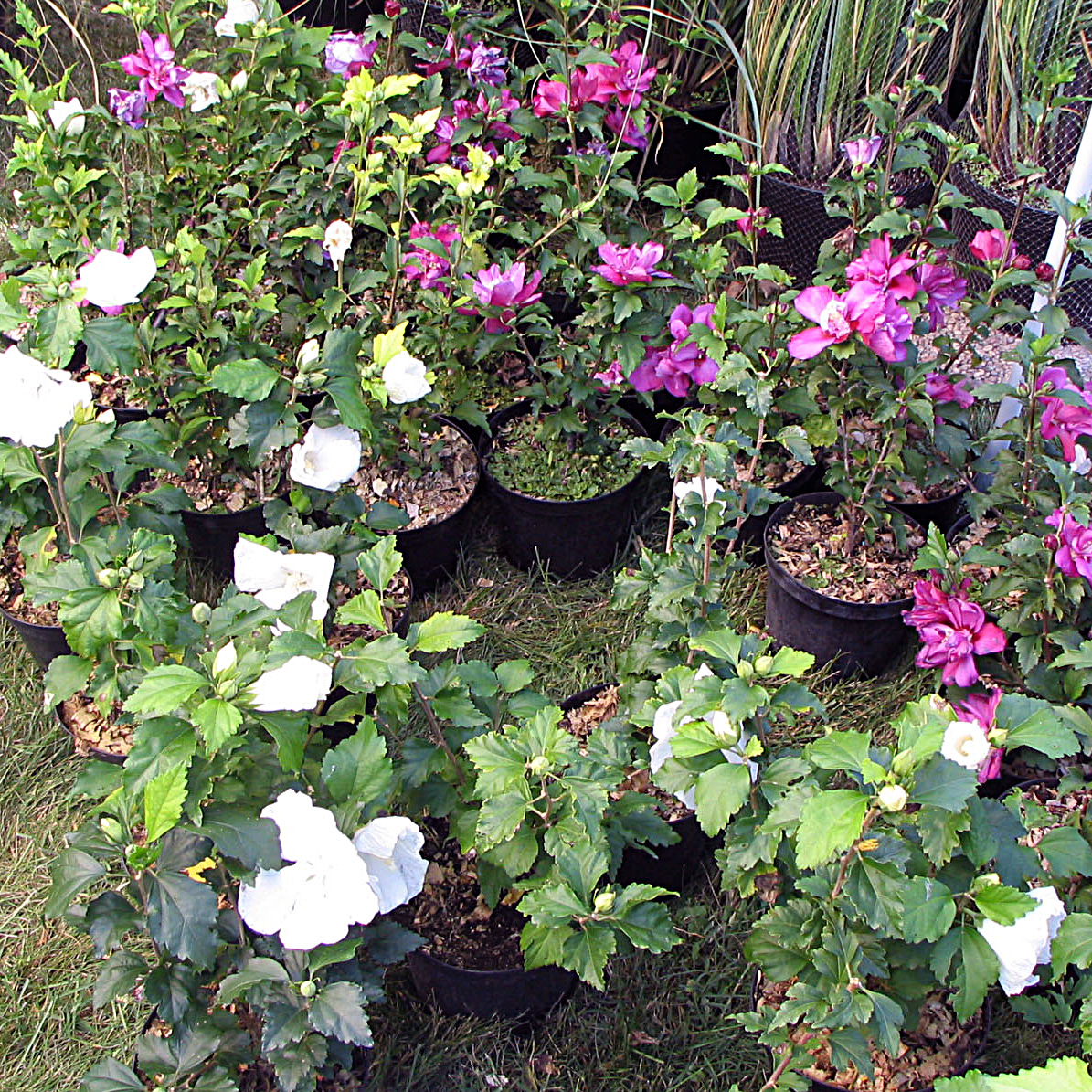 Hibiscus syriacus 'Hamabo', Hibiscus syriacus 'Waltraud'